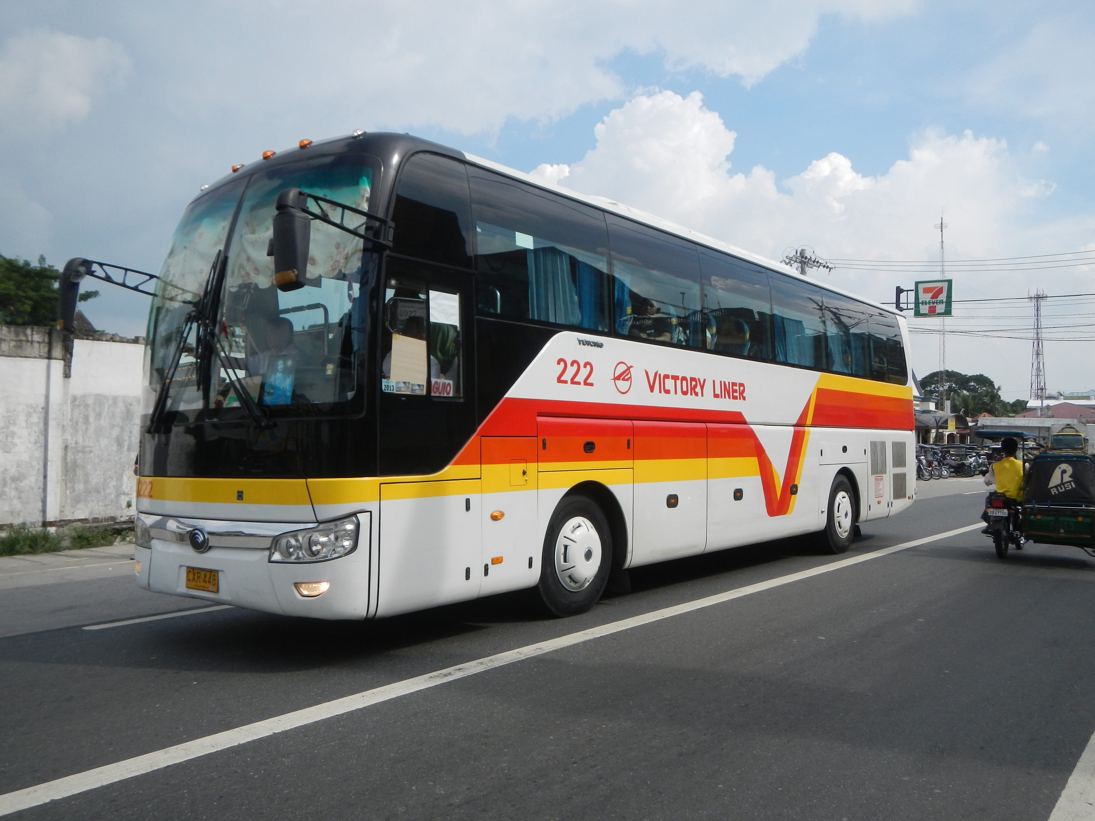 Barangay Poblacion 1, New Moncada, Tarlac Public Market June 26, 2006, is bounded and beside neighbors Poblacion 4, and Camposanto Sur 1, Moncada, Tarlac, Tarlac Province - (near the Municipal Hall, beside Luis Morales Park, Moncada Public Park, beside the school and along MacArthur Highway or Manila North Road interconnecting with the Moncada-Anao Road (Moncada, Tarlac) - connects with TPLEx-Anao Interchange. Eastbound direction goes to Nampicuan and Cuyapo, Nueva Ecija).